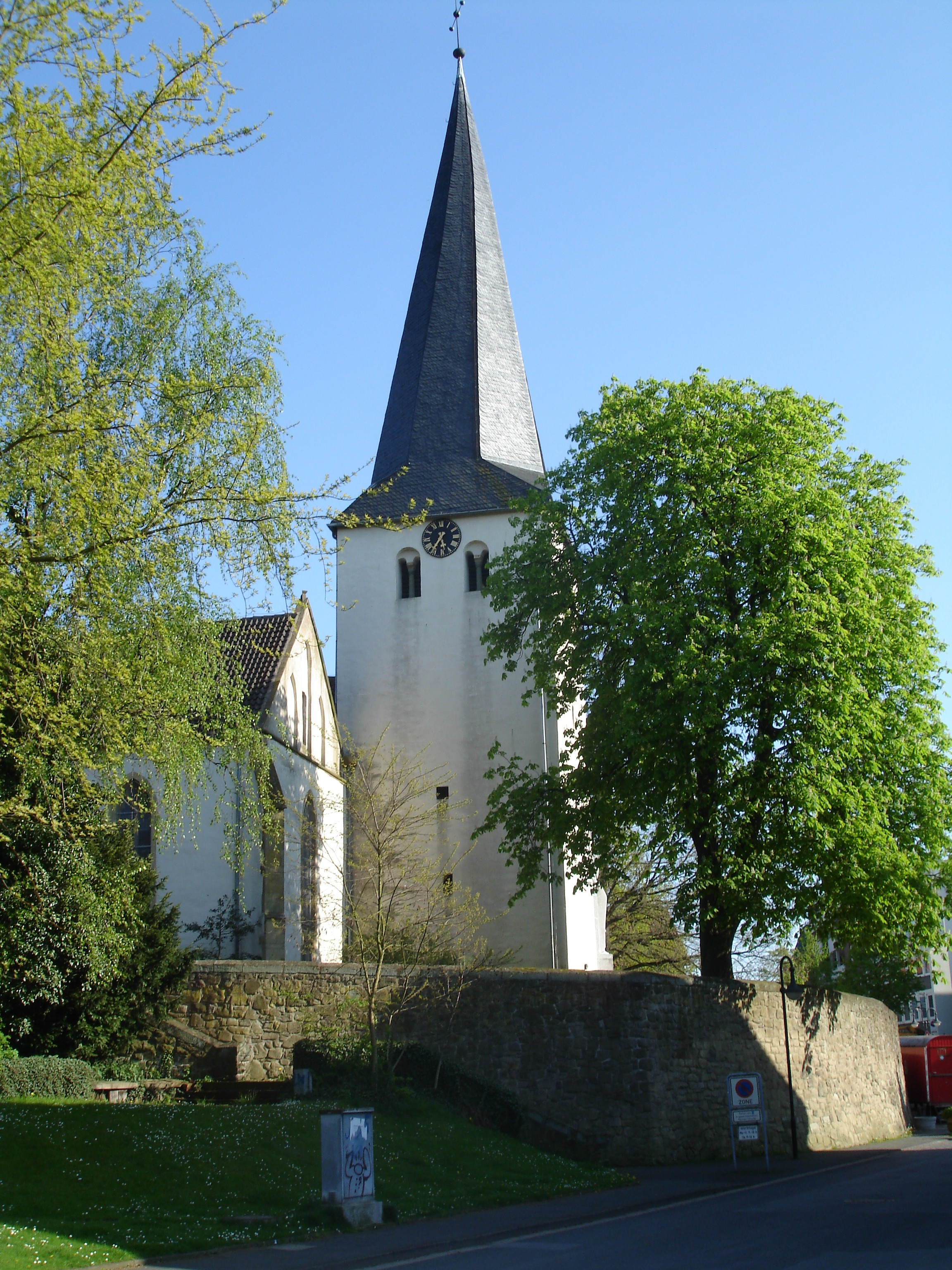 Town of Bünde, District of Herford, North Rhine-Westphalia, Germany: St. Laurentius church.